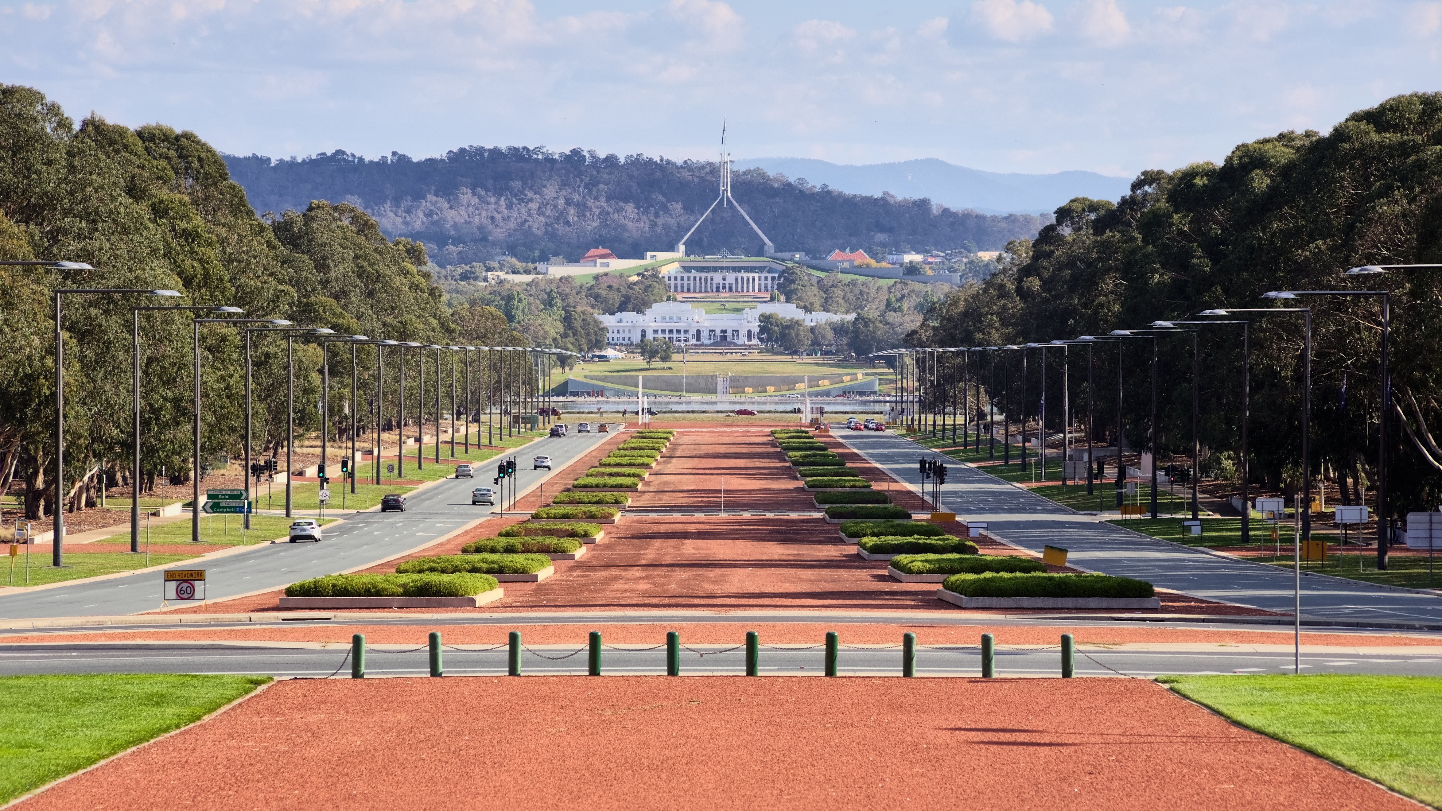 Anzac Parade from the Australian War Memorial in Canberra, ACT. In the distance is Old Parliament House, and behind that is the new Parliament House.